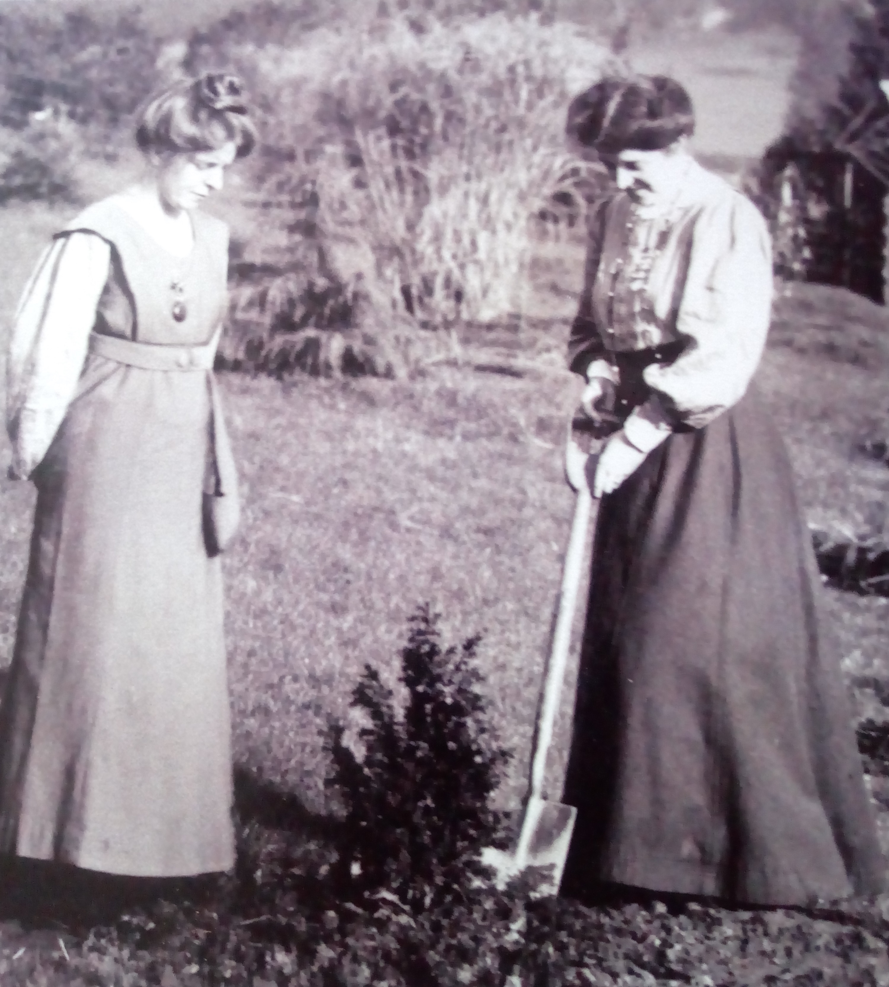 Annie Kenney and Theresa Garnett. From a unique collection of glass plate negatives taken by Col. Linley Blathwayt of Eagle House, Batheaston, home of refuge for suffragettes between 1908 and 1912. He died in 1919. The pictures are made available in larger formats by . - who claim copyright of these 100 year old plus published pictures